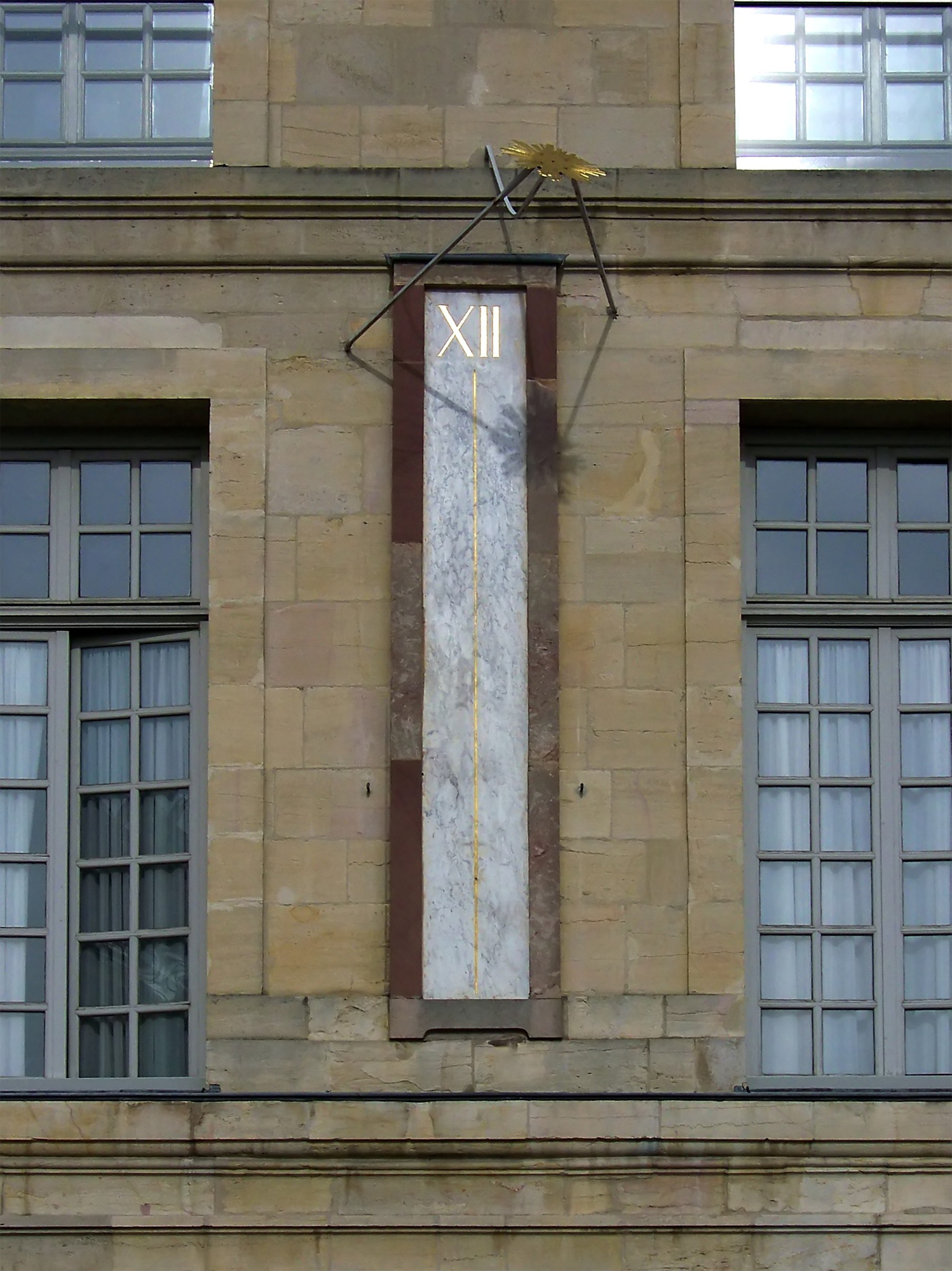 Noon mark showing solar noon (instead of clock noon) on the facade of the Palais des ducs de Bourgogne in Dijon